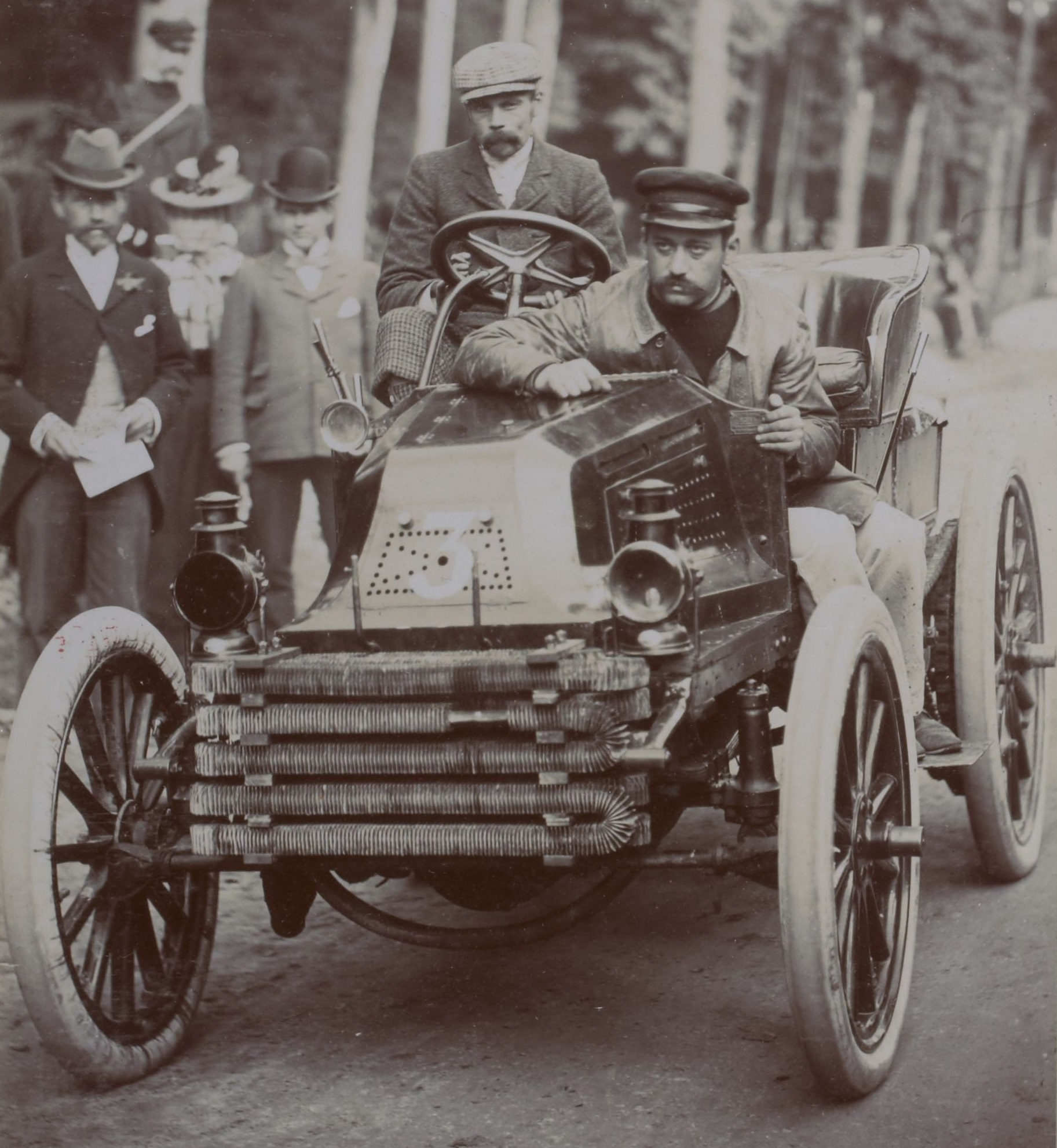 [Collection Jules Beau. Photographie sportive] : T. 10. Année 1899 / Jules Beau : F. 25. [Course Paris - Boulogne-sur-Mer]